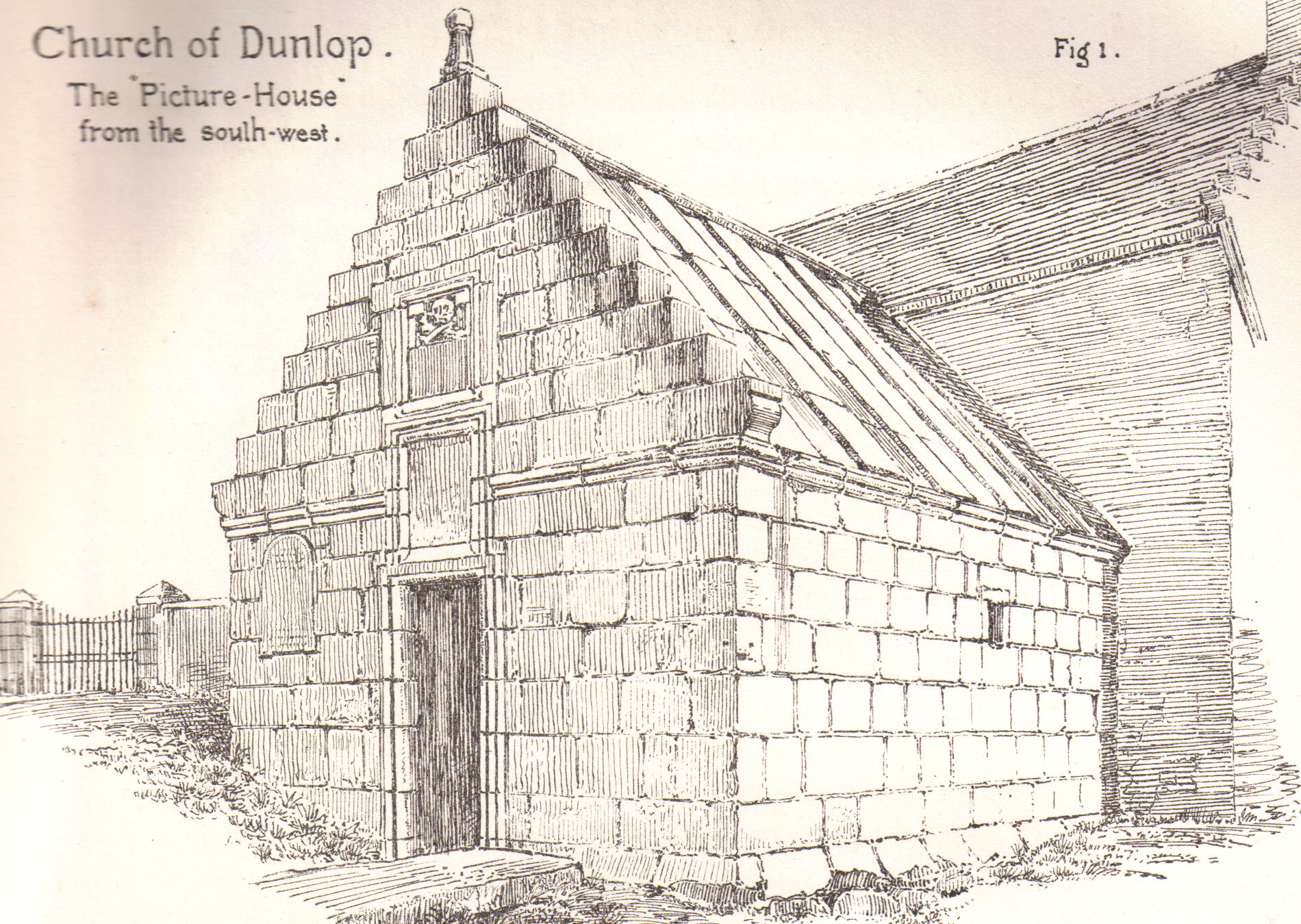 The 'Picture House' or mausoleum of John / Hans Hamilton, Dunlop Church, East Ayrshire, Scotland.